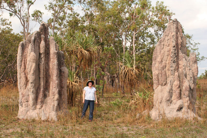 A photo of two termite cathedral mounds in the Northern Territory of Australia Photo by Ray Norris